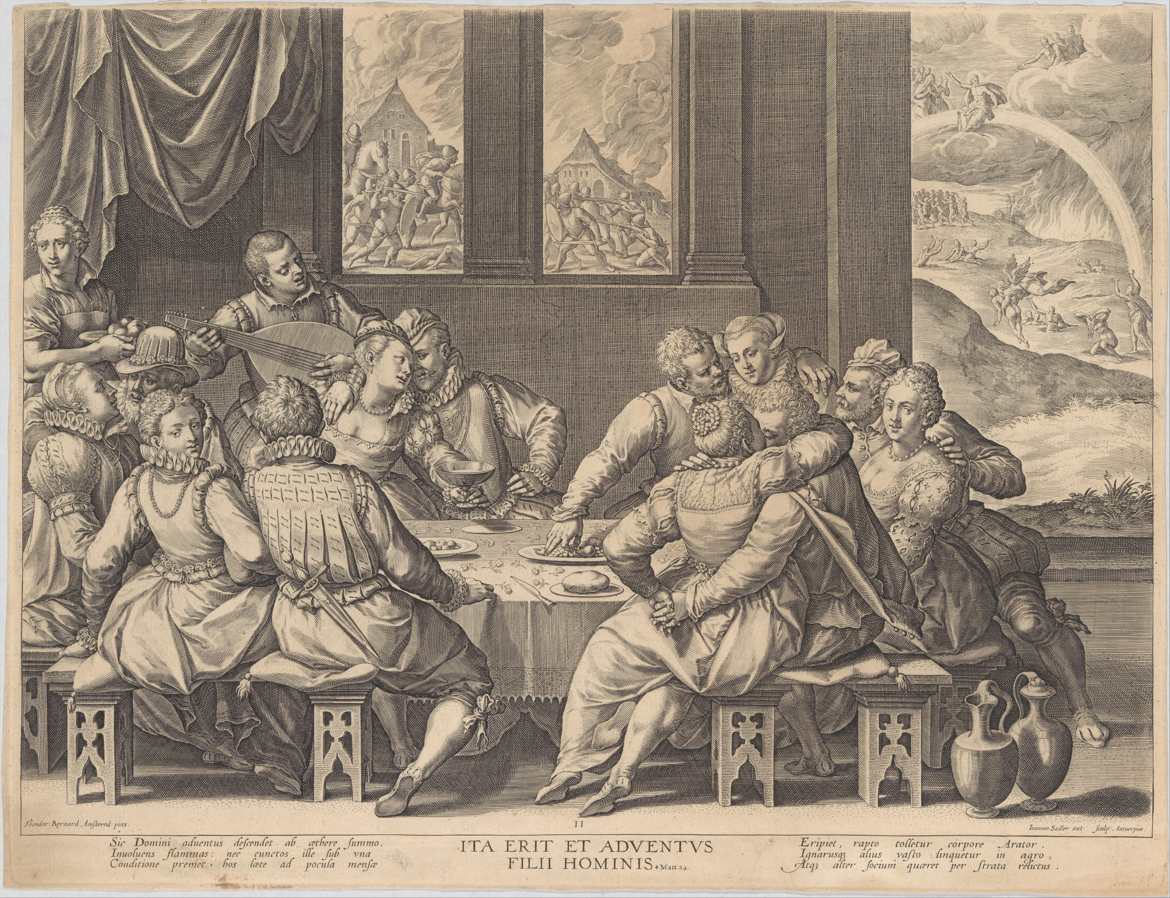 Print; Prints